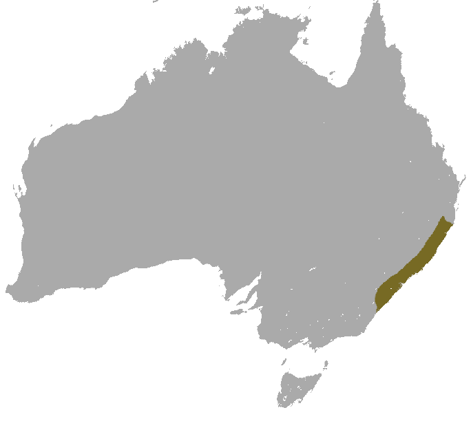 Brown Antechinus (Antechinus stuartii) range